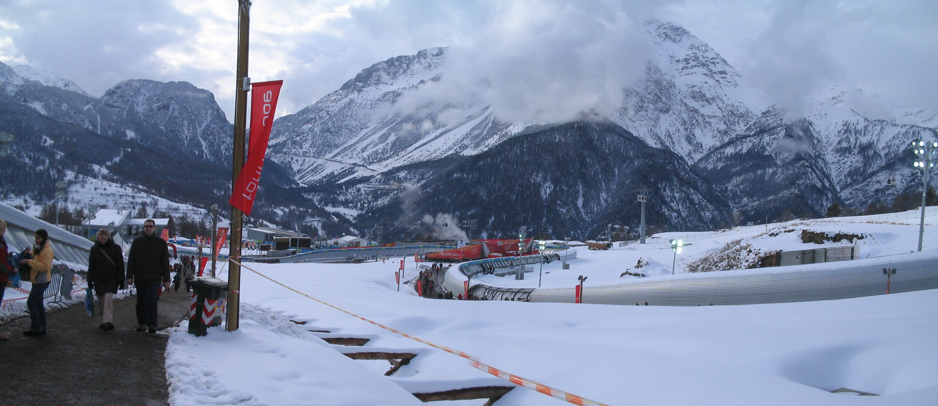 Bobsleigh in Cesana Torinese - Pariol, XX Winter Olympic Games